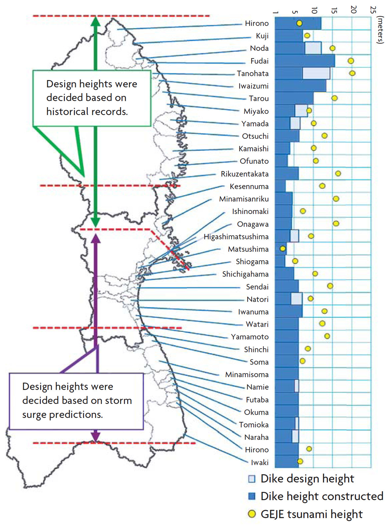 Source: "Structural Measures Against Tsunamis", in: Federica Ranghieri, Mikio Ishiwatari (editors): Learning from Megadisasters - Lessons from the Great East Japan Earthquake, World Bank Publications, Washington, DC, 2014, ISBN (paper): 978-1-4648-0153-2, ISBN (electronic): 978-1-4648-0154-9, Chapter 1, pp. 25-32, here: p. 27, "Map 1.1 Determing dike height (Source: Ministry of Land, Infrastructure, Transport and Tourism (MLIT)". License: Creative Commons Attribution CC BY 3.0 IGO. Description from the mentioned source: "When the tsunami hit eastern Japan in March 2011, 300 km of coastal dikes, some as high as 15 meters high, had been built (map 1.1)."